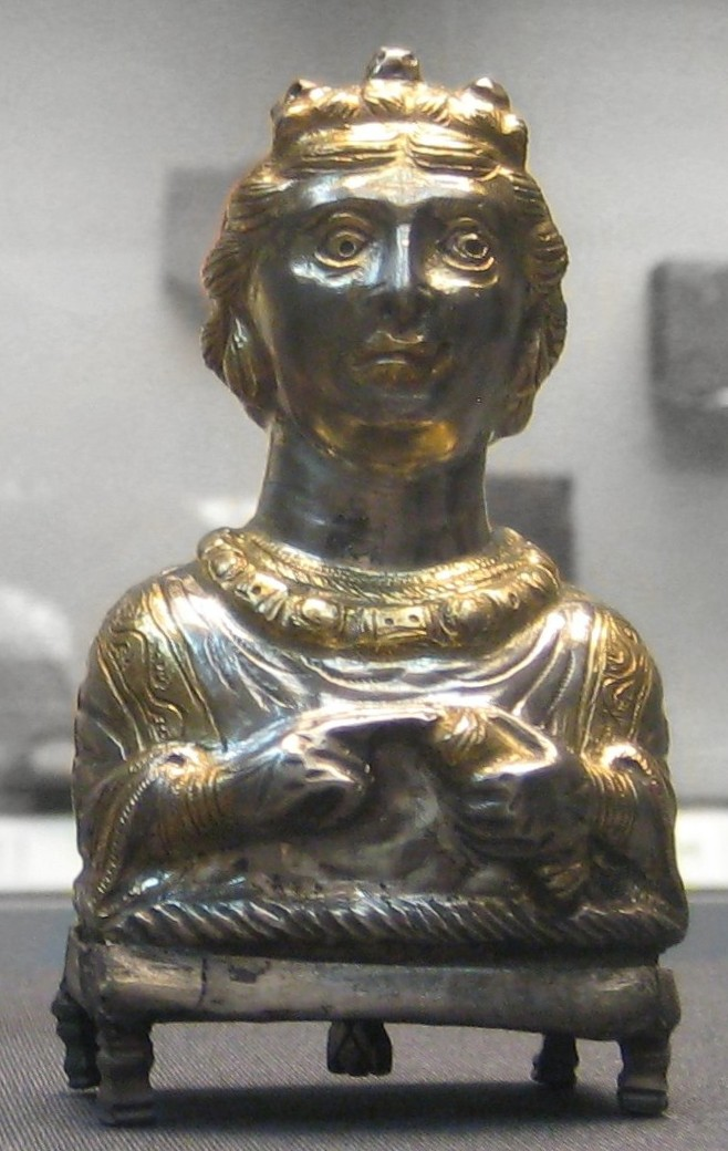 Silver pepper pot in anthropomorphic form from the Hoxne Hoard.